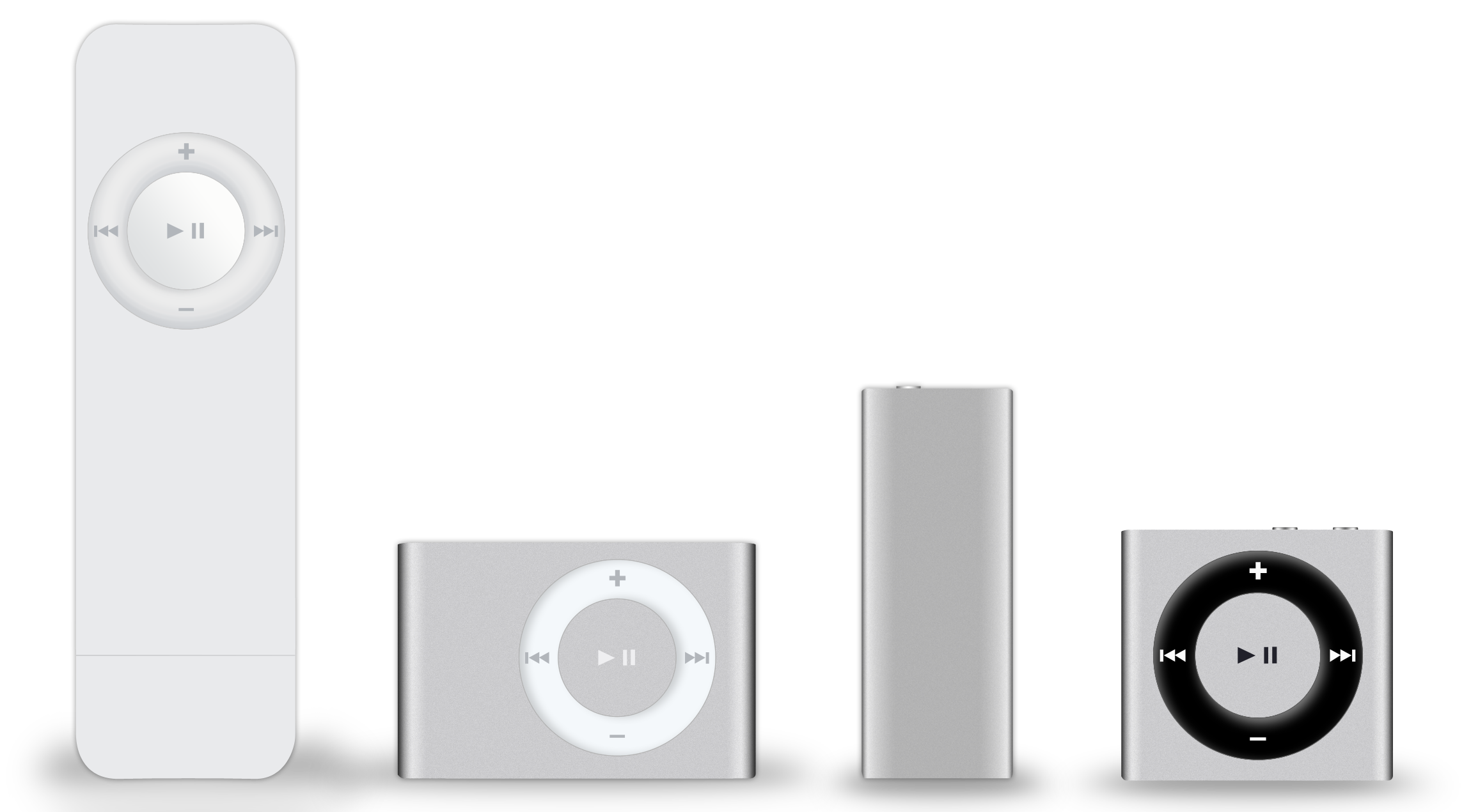 This iPod shuffle family